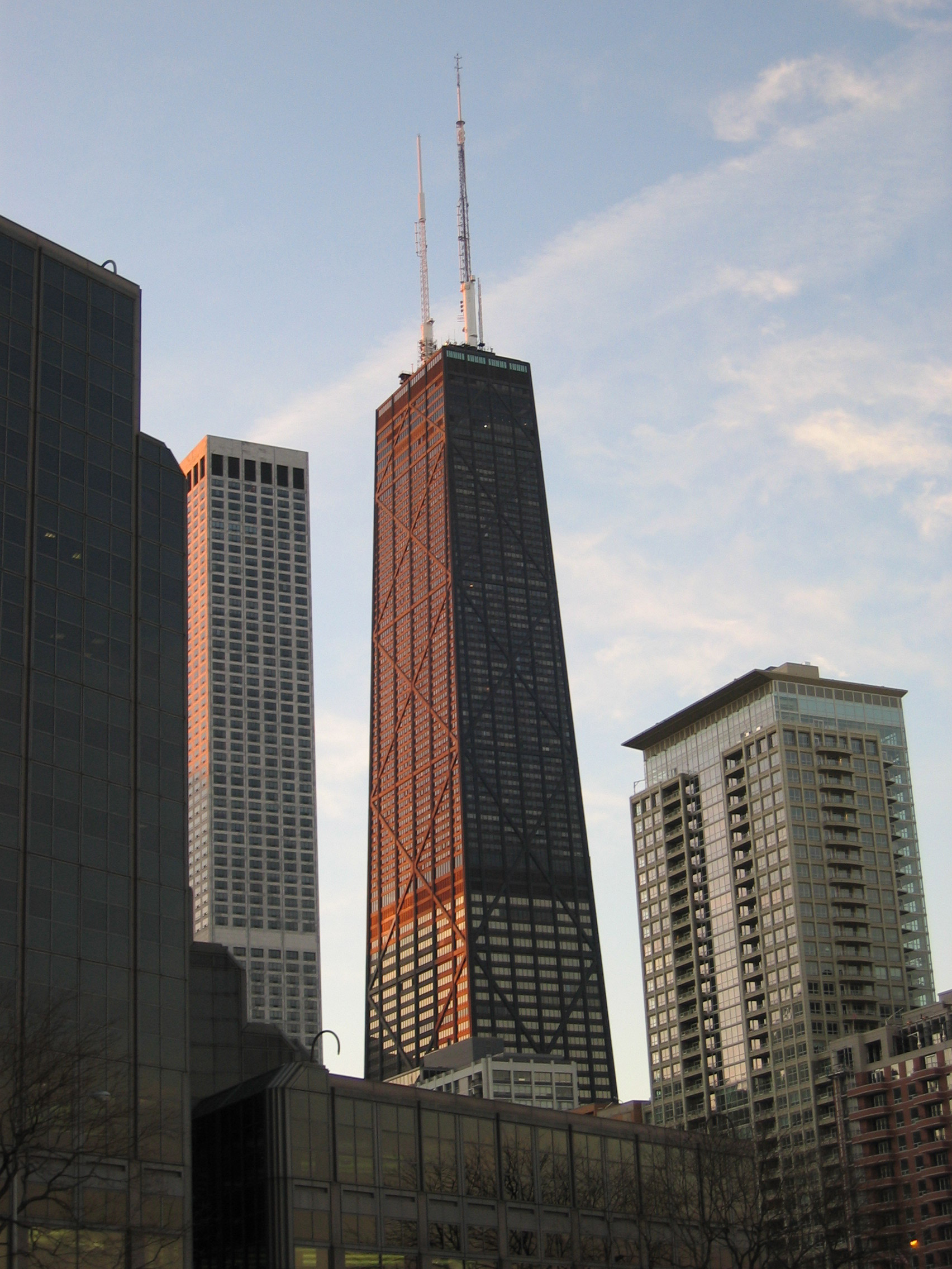 The John Hancock Center, Chicago, Illinois. © Jeremy Atherton, 2003.